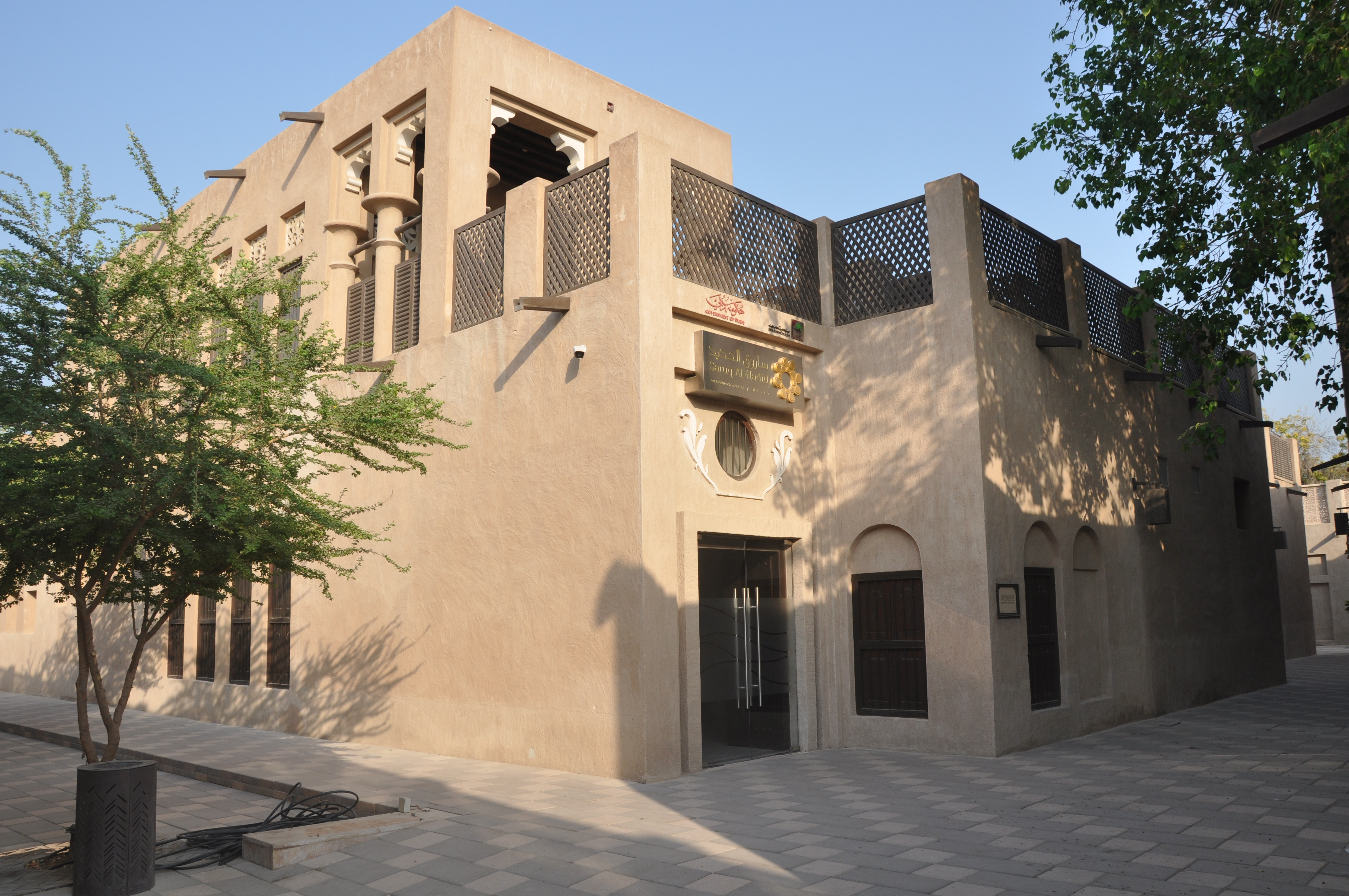 The current title on this house is Saruq Al-Hadid Archaeological Museum, which is a public museum managed by Dubai municipality as appear on the logos attached to the building